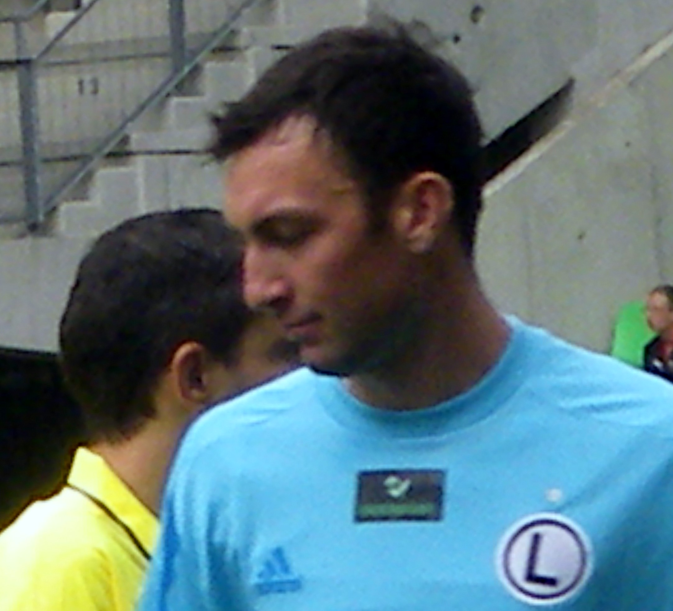 Marijan Antolovic vs Stade Rennais FC